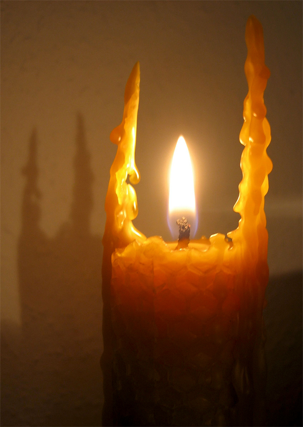 Bee-wax candle pretends to be Barad-dûr.